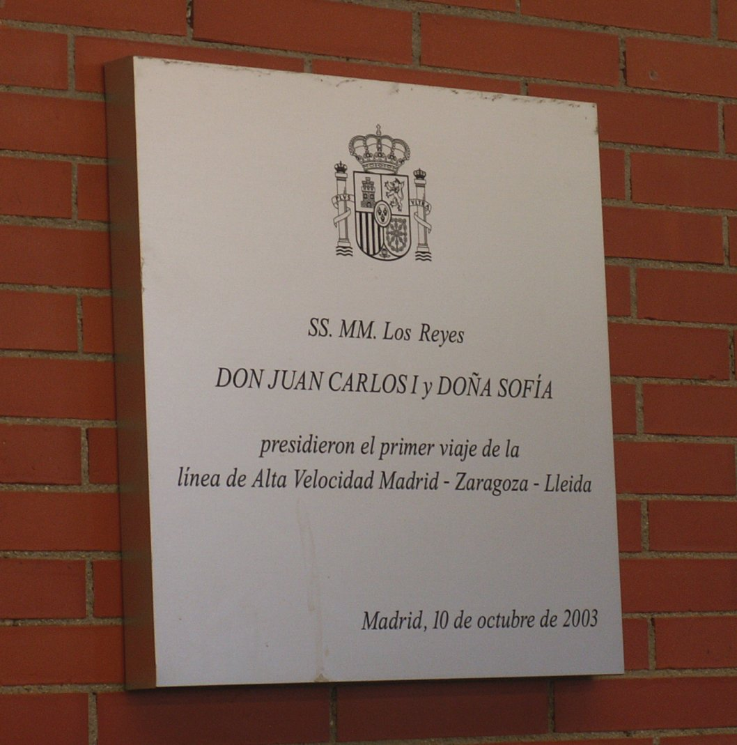 A plate at the arrival hall of the Madrid-Atocha train station commemorates the inaugural voyage on the Madrid-Lleida high-speed railway line.